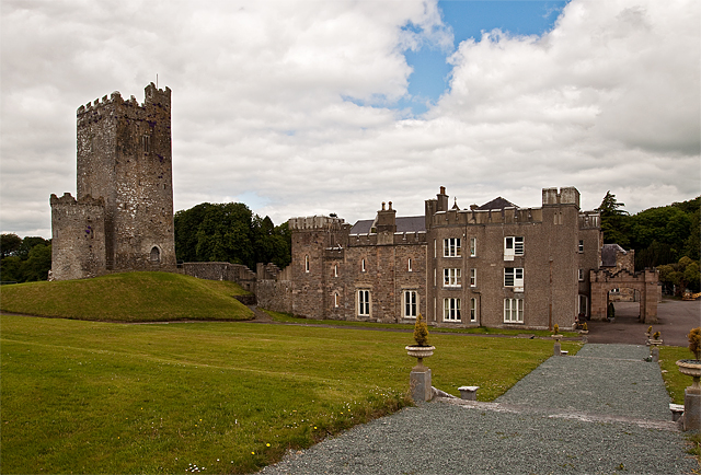 Castles of Munster: Drishane, Cork Drishane Castle alongside the former seat of the Wallis family.